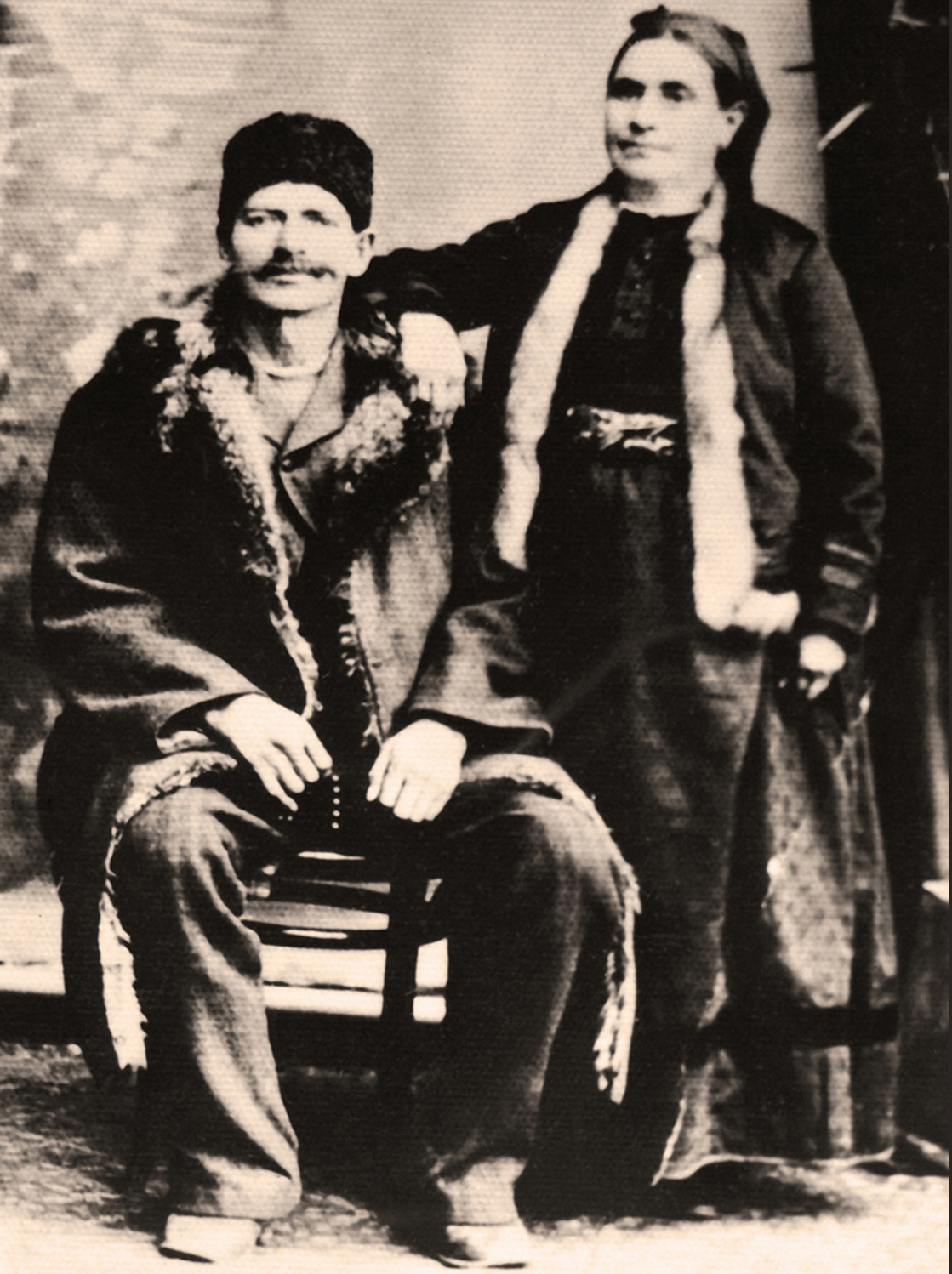 This photo is provided by the Historical Museum in Dupnitsa and is included in the album "Dupnitsa through the centuries" („Дупница през вековете“). Dupnitsa Municipality, Historical Museum - Dupnitsa. ISBN 978-954-8187-89-3.